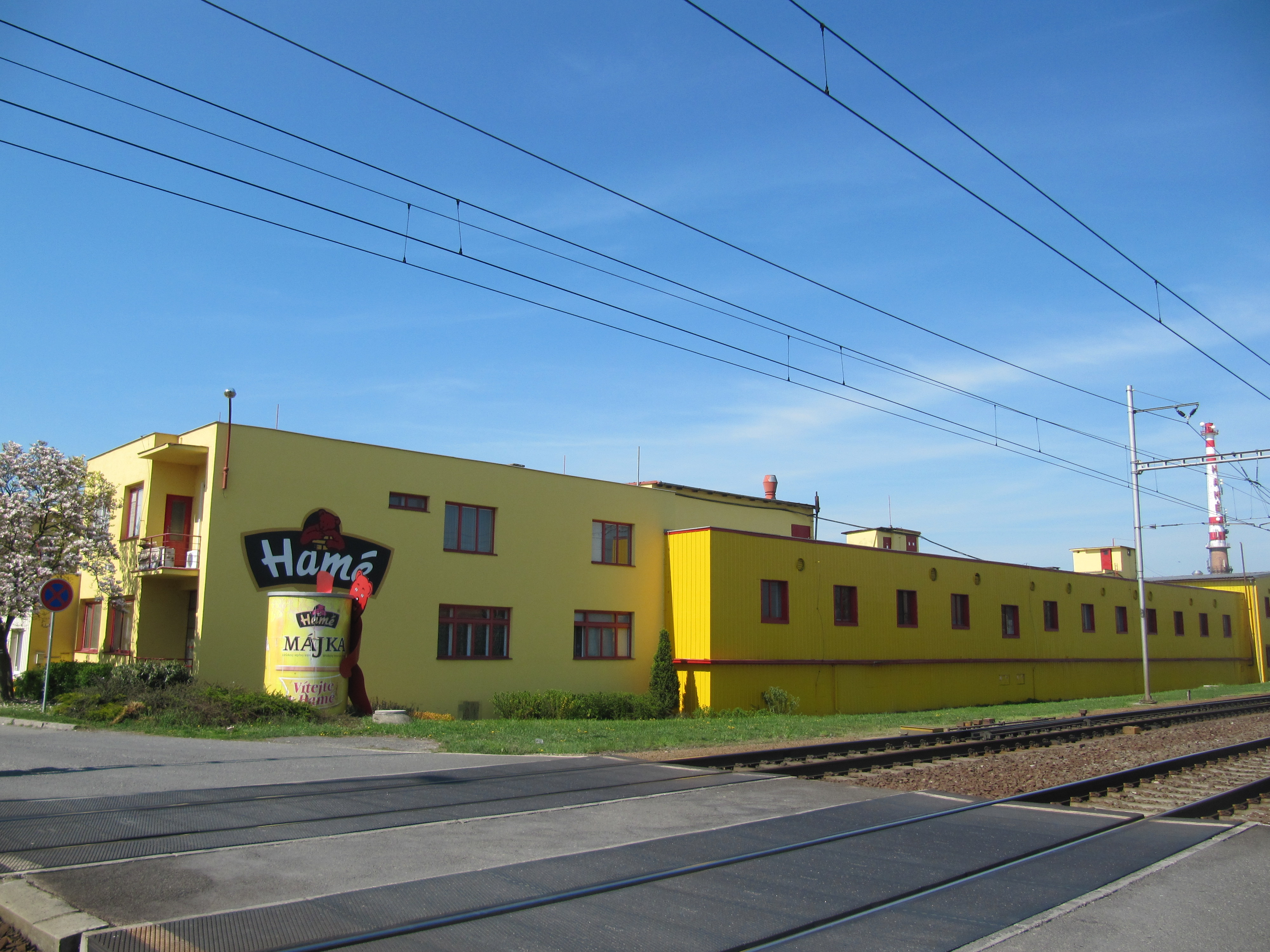 Babice in Uherské Hradiště District. Hamé factory.